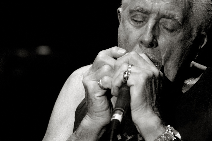 Event: "Pistoia Blues 2007" Pistoia, Italy